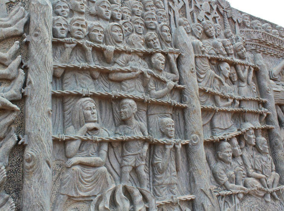 innocent tamil civilians in srilankan army's concentration camp